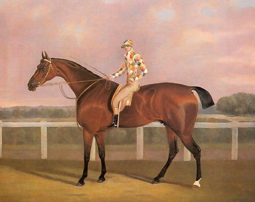 Painting of the racehorse Memnon, by Clifton Tomson (1775-1828). Artist dead for 185 years.